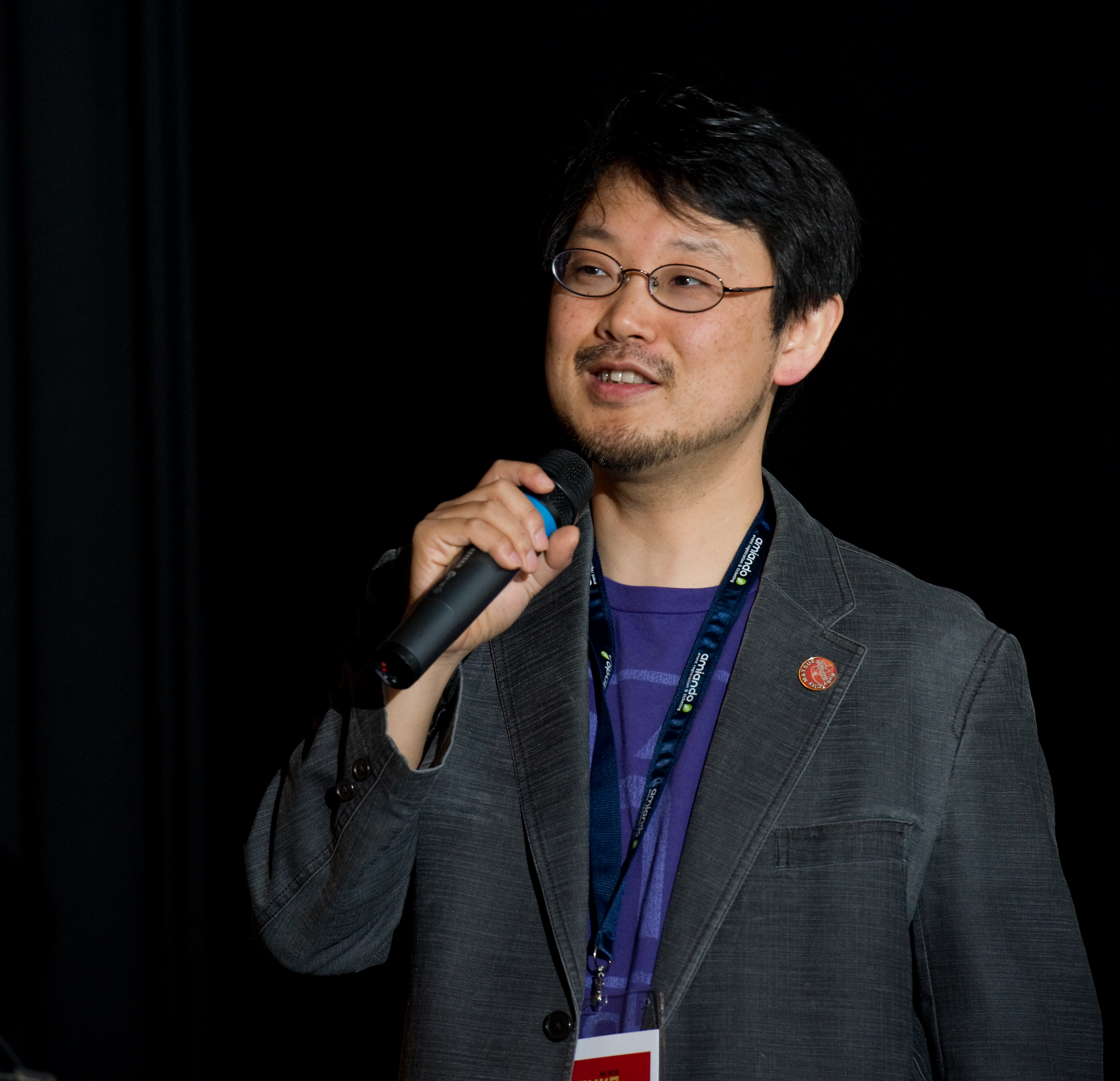 Picture of Yukihiro Matsumoto, creator of the Ruby programming language, giving his keynote at the EuRuKo 2011.